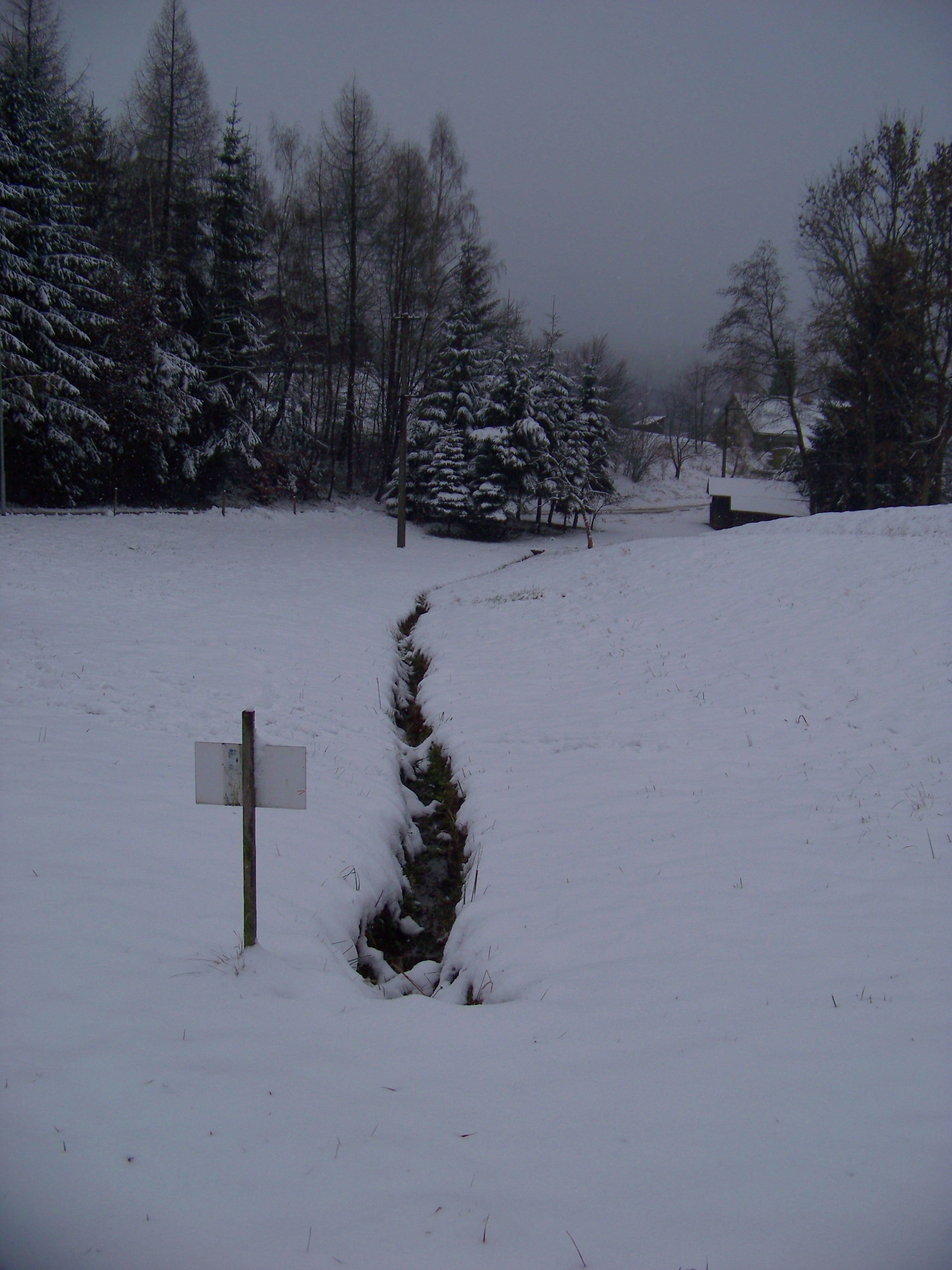 Lomnice nad Popelkou-Košov, Semily District, Liberec Region, Czech Republic. Spring of Cidlina river.